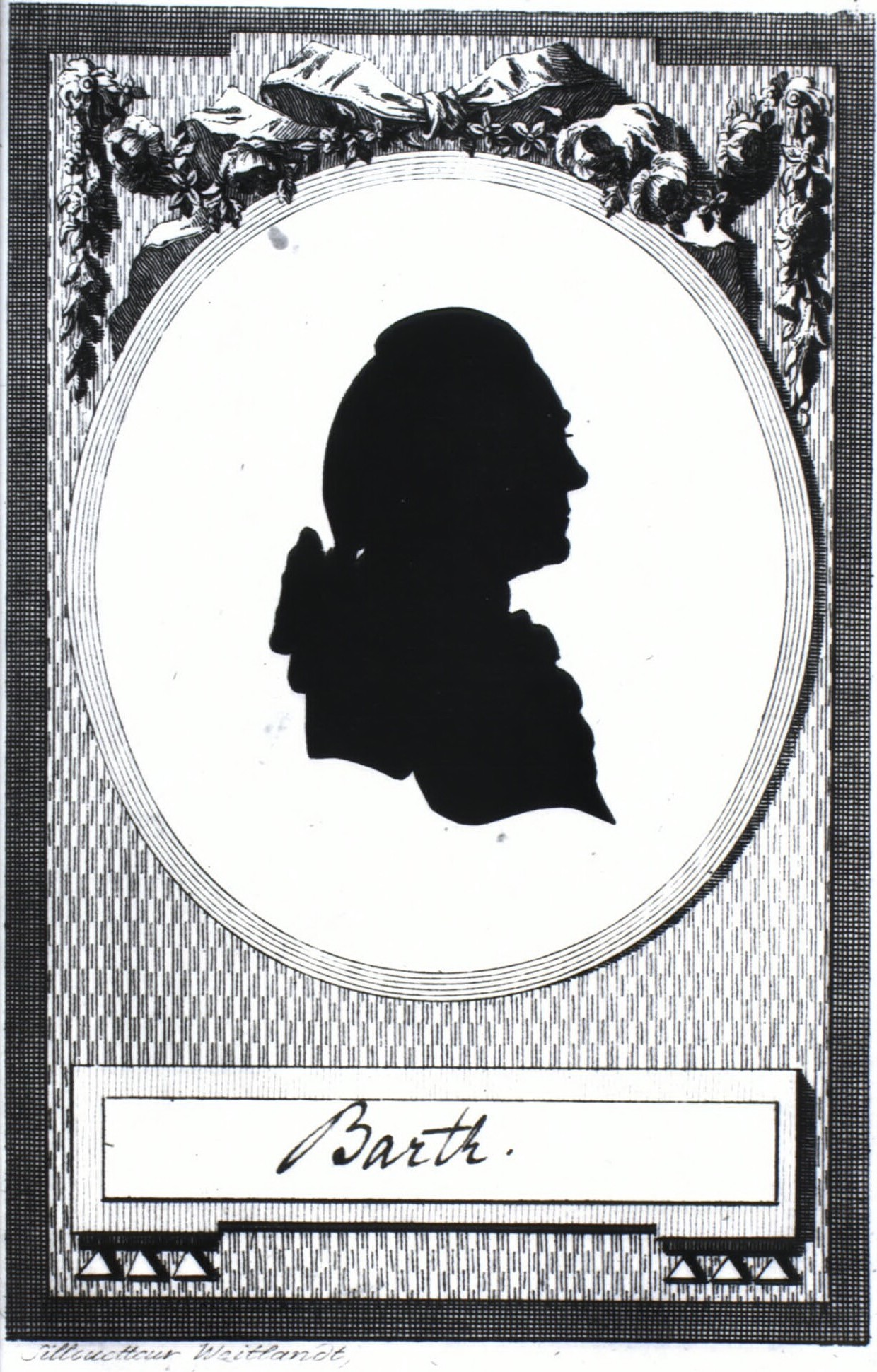 Depicted person: Christian Samuel Barth